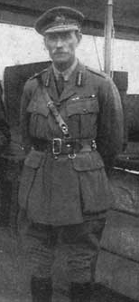 Photograph of General Walter Braithwaite on board a ship at Gallipoli.